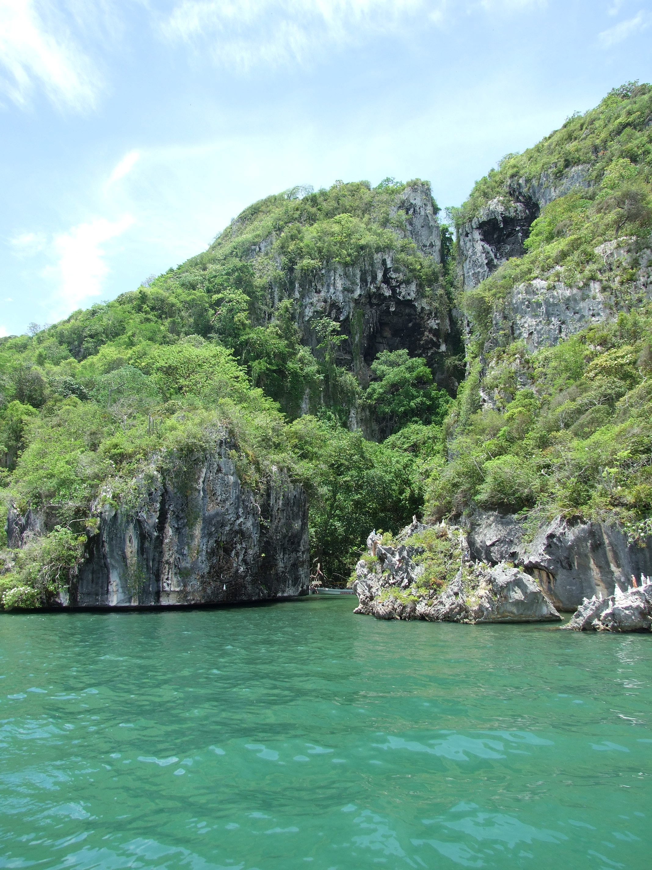 This is one of many caverns in the rocks. People placed hundreds of figures of the Holy Virgin in and around it. We swam in there, because the boat couldn't go in.